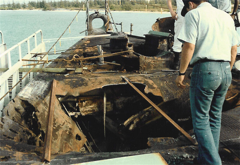 On 30 October 1989, a U.S. Navy McDonnell Douglas F/A-18A Hornet from the aircraft carrier USS Midway (CV-41) mistakenly dropped a 500 lb (227 kg) general-purpose bomb on the deck of the guided missile cruiser USS Reeves (CG-24) during training exercises in the Indian Ocean, creating a 1.5 m hole in the bow through the line locker one compartment forward of the fore missile house, sparking small fires, sending shrapnel back to the fantail and injuring five sailors. Reeves was operating 51 km south of Diego Garcia at the time of the incident.